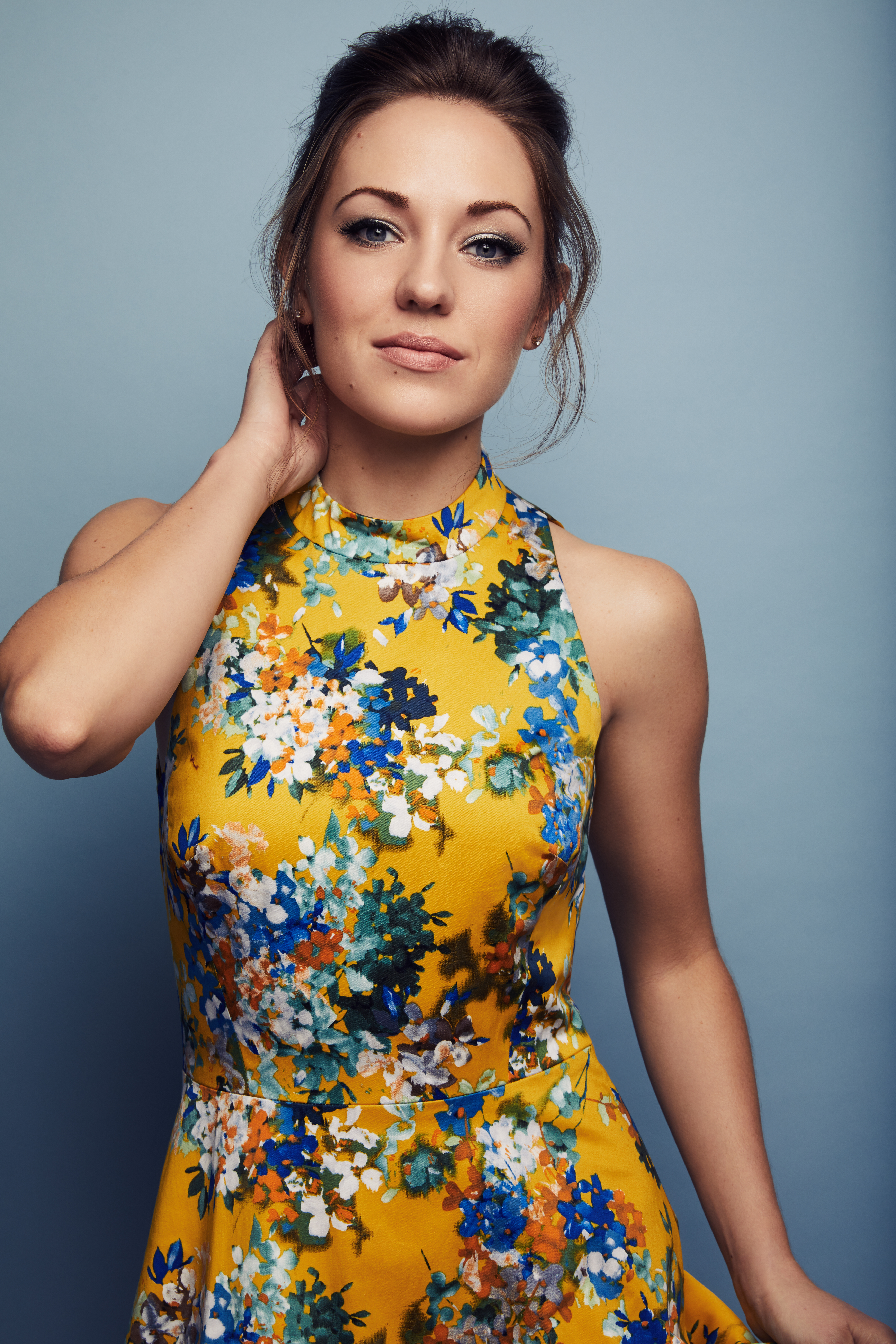 Laura Osnes Photo by Nathan Johnson